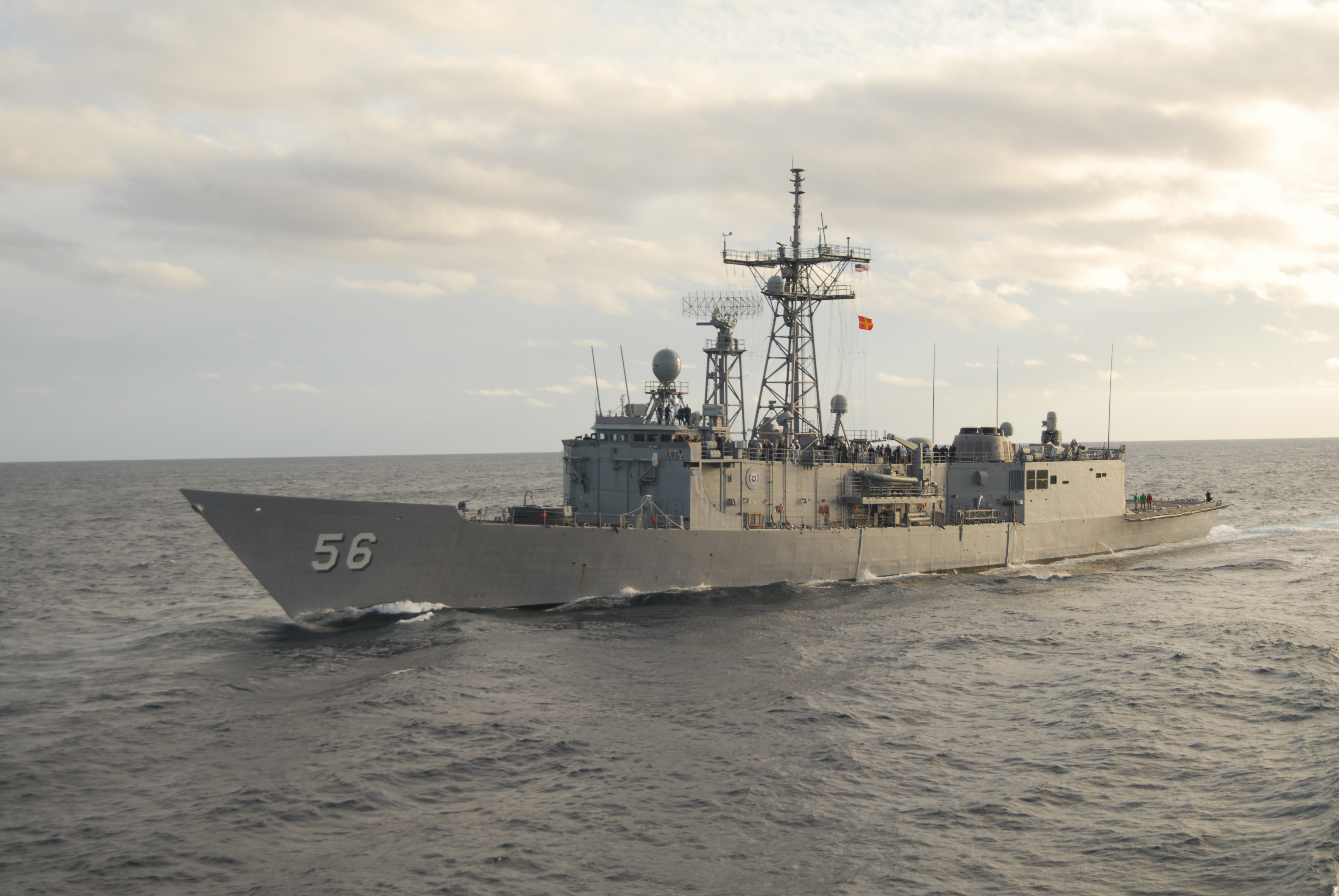 070413-N-2735T-205 ATLANTIC OCEAN (April 13, 2007) – Guided missile frigate USS Simpson (FFG 56) pulls up alongside guided missile destroyer USS Bainbridge (DDG 96) during maneuvering exercises in the Atlantic Ocean. Simpson and Bainbridge are both in transit to participate in the Neptune Warrior training course, which will test the interoperability of NATO coalition forces. U.S. Navy photo by Mass Communication Specialist Seaman Coleman Thompson (RELEASED)